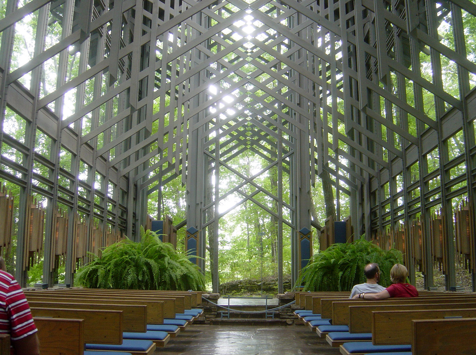 Thorncrown Chapel in Eureka Springs, facing north (from entrance). Photo taken by Bobak Ha'Eri. September 2, 2006. Please observe license and properly cite in use outside Wikipedia. Category:Images of Arkansas